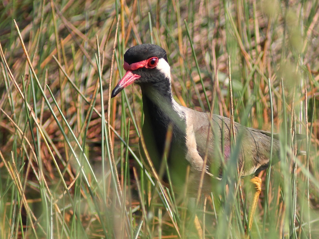 These large waders are usually seen in pairs or small groups. Sadly this species is declining in its western range, but is abundant in much of South Asia. They eat insects, snails and other invertebrates, mostly picked from the ground.